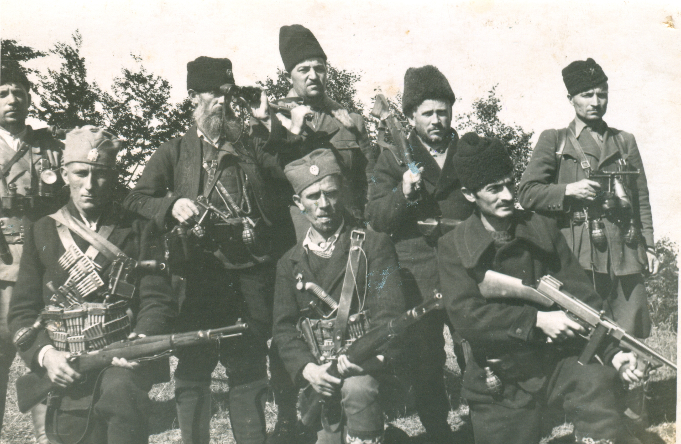 Voivode Anđelko Adamović with a group of Chetniks and Partisans 1941. Srpski (latinica): Vojvoda Anđelko Adamović sa grupom cetnika i partizana 1941.